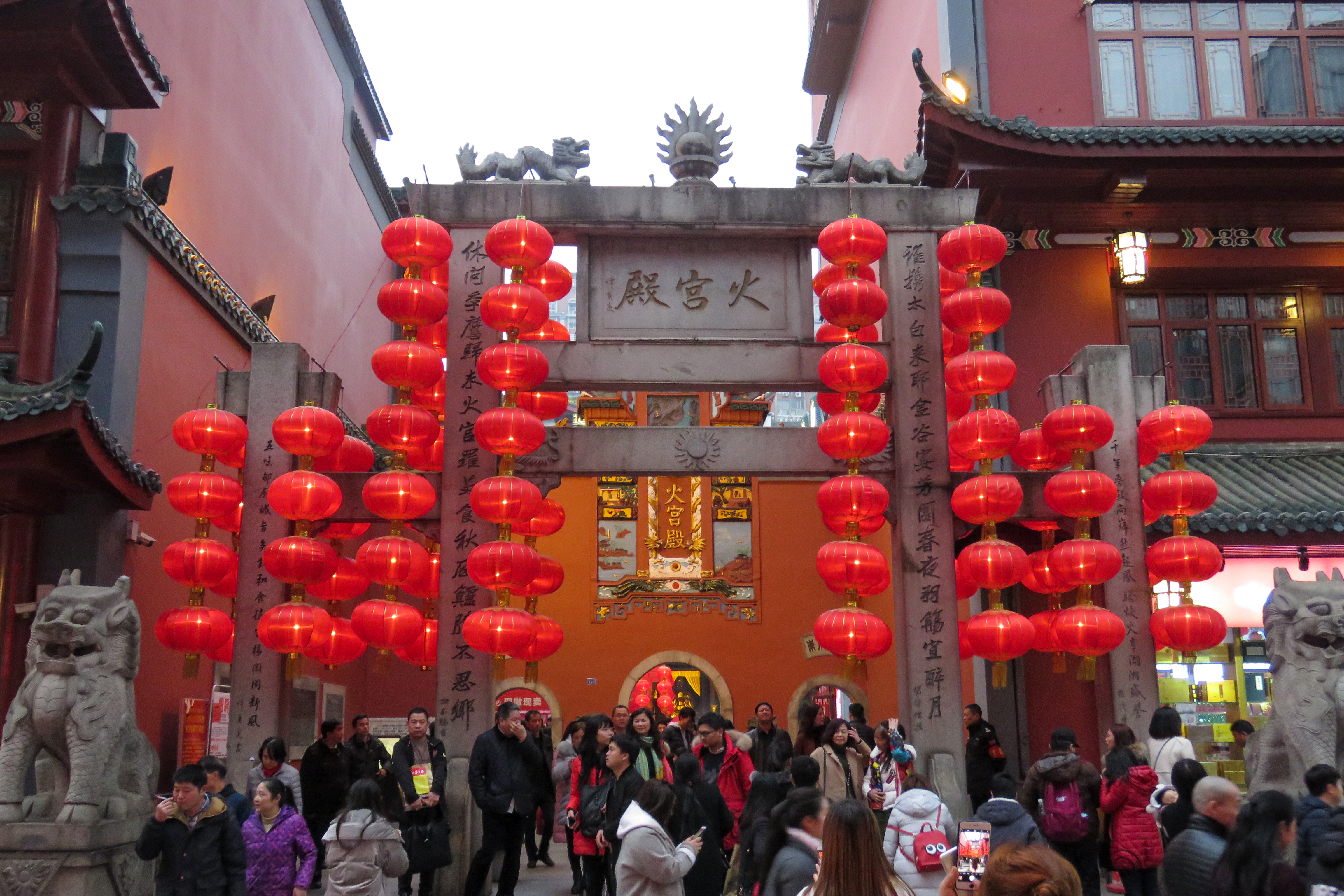 Quite probably one of the gastronomical icons in Changsha - by the way, this temple of fire god was formerly called Qianyuan Palace.